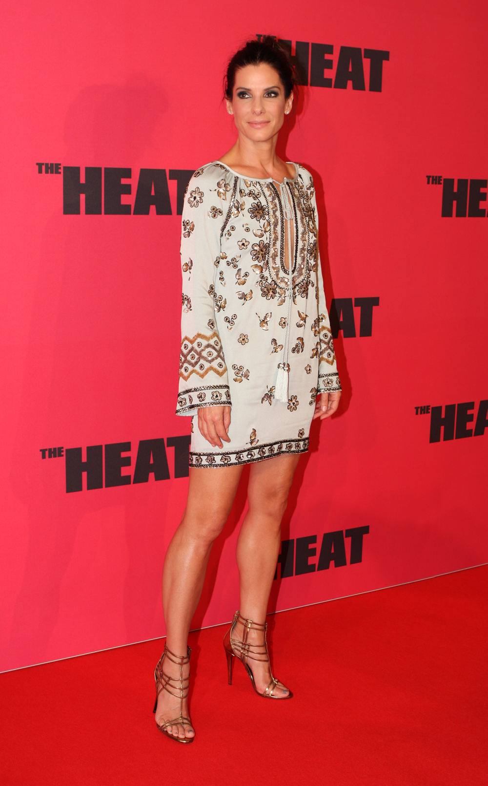 The Heat red carpet movie premiere in Sydney, Australia with Sandra Bullock - 2nd July 2013... Sandra Bullock, a good looking 48-year is in town to promote her new movie, The Heat. Early in the day she hopped a luxury boat on Sydney Harbour to enjoy our city. Event Cinemas in George Street says Bullock and Melissa McCarthy playing detectives in a cop comedy. Bullock plays successful, but highly highly strung FBI special agent Sarah Ashburn and is partnered with tough Boston cop Shannon Mullins (McCarthy). The girls are after a drug boss... of course. Early reviews and box office numbers demonstrate that Bullock's latest movie will be a thumbs up with fans and movie execs. The action-comedy grossed $US40 million ($43.7 million) - in second earnings place - in its opening weekend. Plot Outline: Uptight FBI Special Agent Sarah Ashburn (Sandra Bullock) and foul-mouthed Boston cop Shannon Mullins (Melissa McCarthy) couldn’t be more incompatible. But when they join forces to bring down a ruthless drug lord, they become the last thing anyone expected: buddies. From Paul Feig, director of “Bridesmaids.” Cast... Sandra Bullock as FBI Special Agent Sarah Ashburn Melissa McCarthy as Detective Shannon Mullins Dan Bakkedahl as DEA Agent Craig Demián Bichir as Hale Tom Wilson as Captain Woods Michael Rapaport as Jason Mullins Marlon Wayans as Levy Tony Hale as The John Taran Killam as Adam Nathan Corddry as Michael Mullins Kaitlin Olson as Tatiana Bill Burr as Mark Mullins Michael McDonald as Julian Lance Norris as Scruffy Bar Patron Jamie Denbo as Beth Jessica Chaffin as Gina Steve Bannos as Wayne Raw Leiba as Paint Factory Henchman Joey McIntyre as Peter Mullins Paul Feig as Doctor Websites The Heat 20th Century Fox Eva Rinaldi Photography